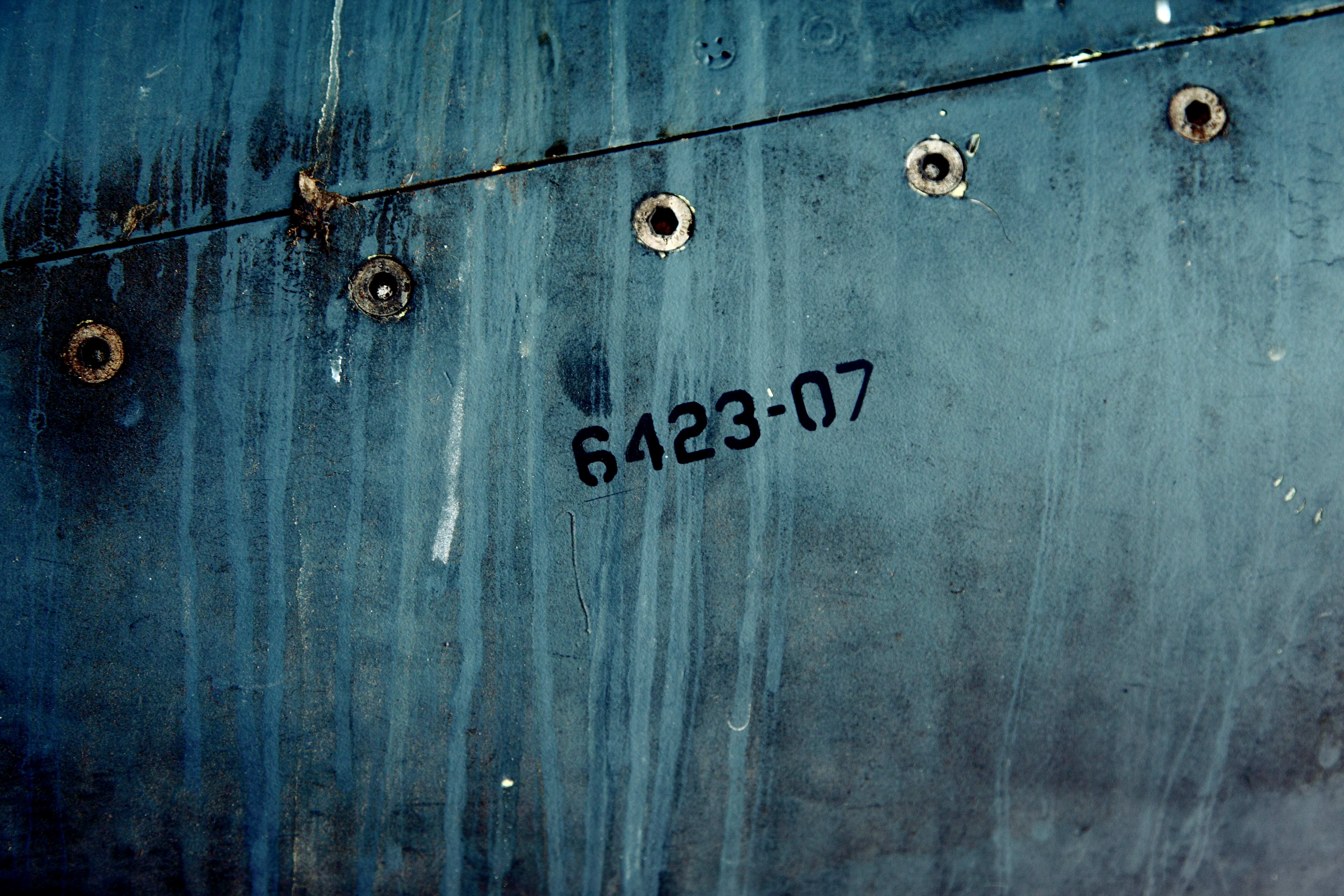 My photos that have a creative commons license and are free for everyone to download, edit, alter and use as long as you give me, "D Sharon Pruitt" credit as the original owner of the photo. Have fun and enjoy!